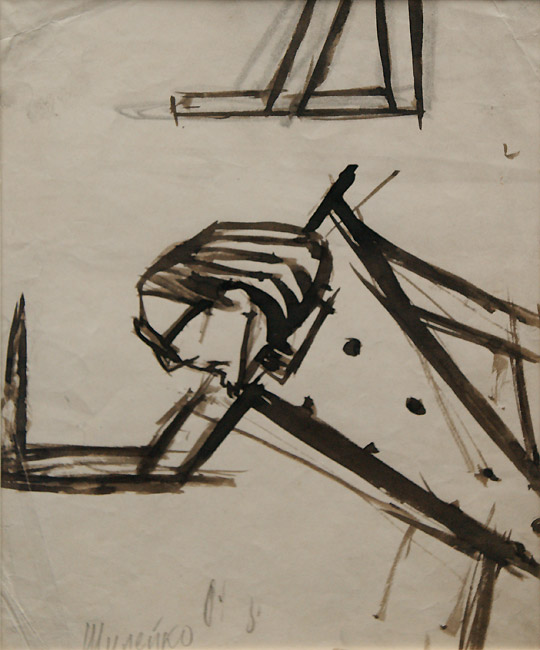 V. Shileyko by N.Altman (1910s, Akhmatova's museum).jpg